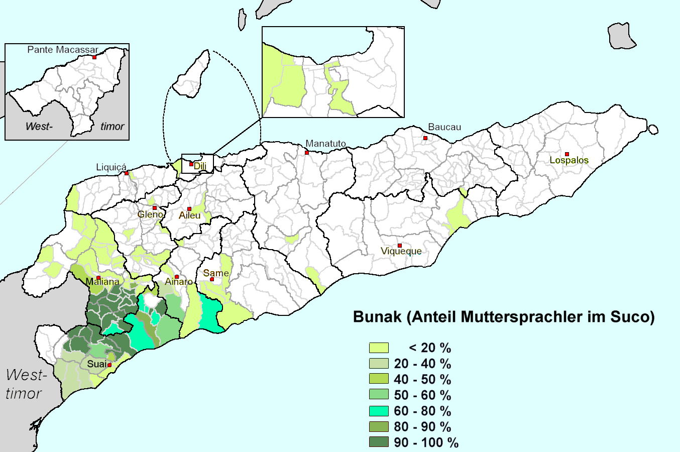 Percentage of people using Bunak as mother tongue in sucos of East Timor (Timor-Leste), according census 2010